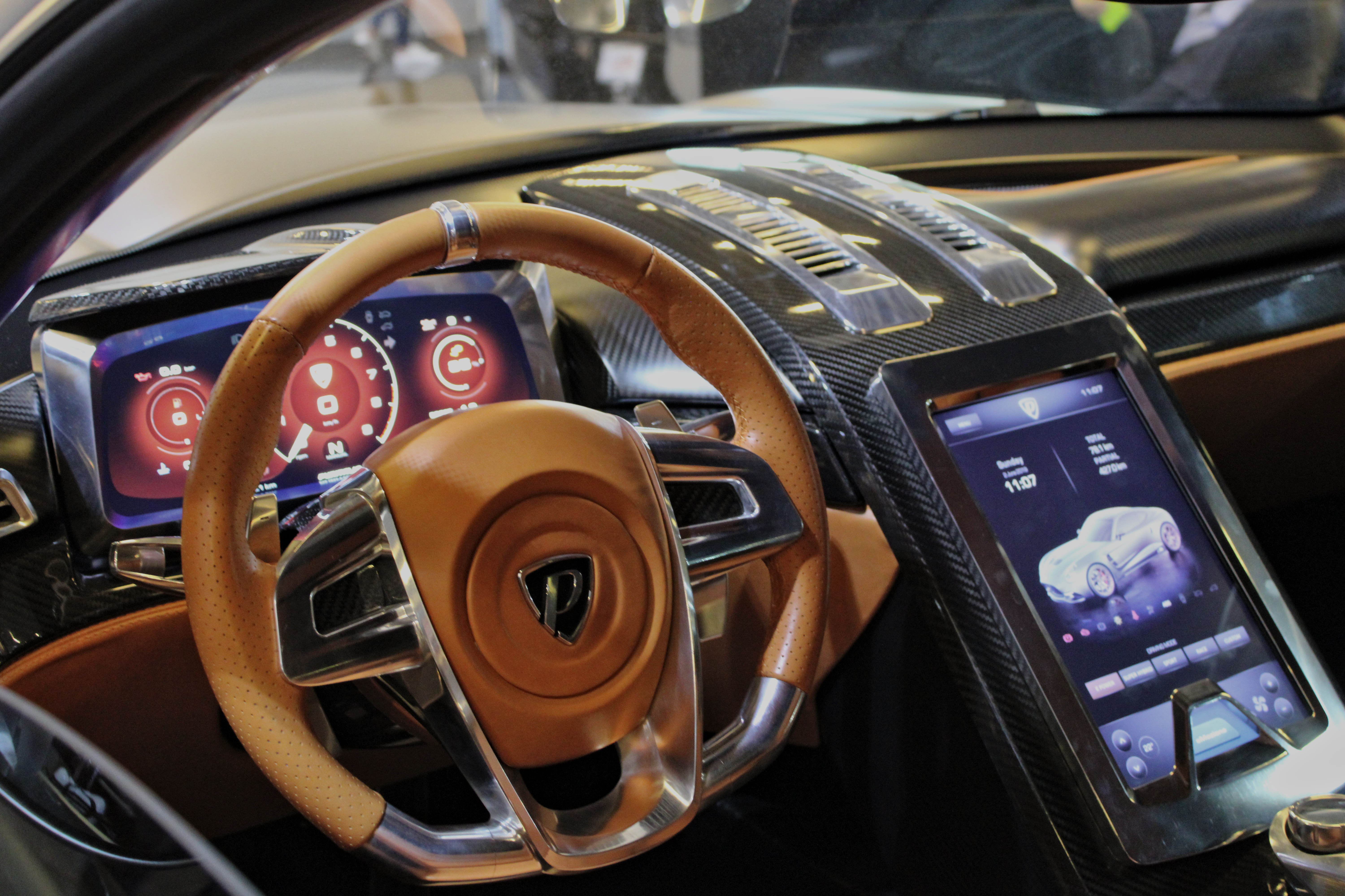 Puritalia Berlinetta at Top Marques 2019